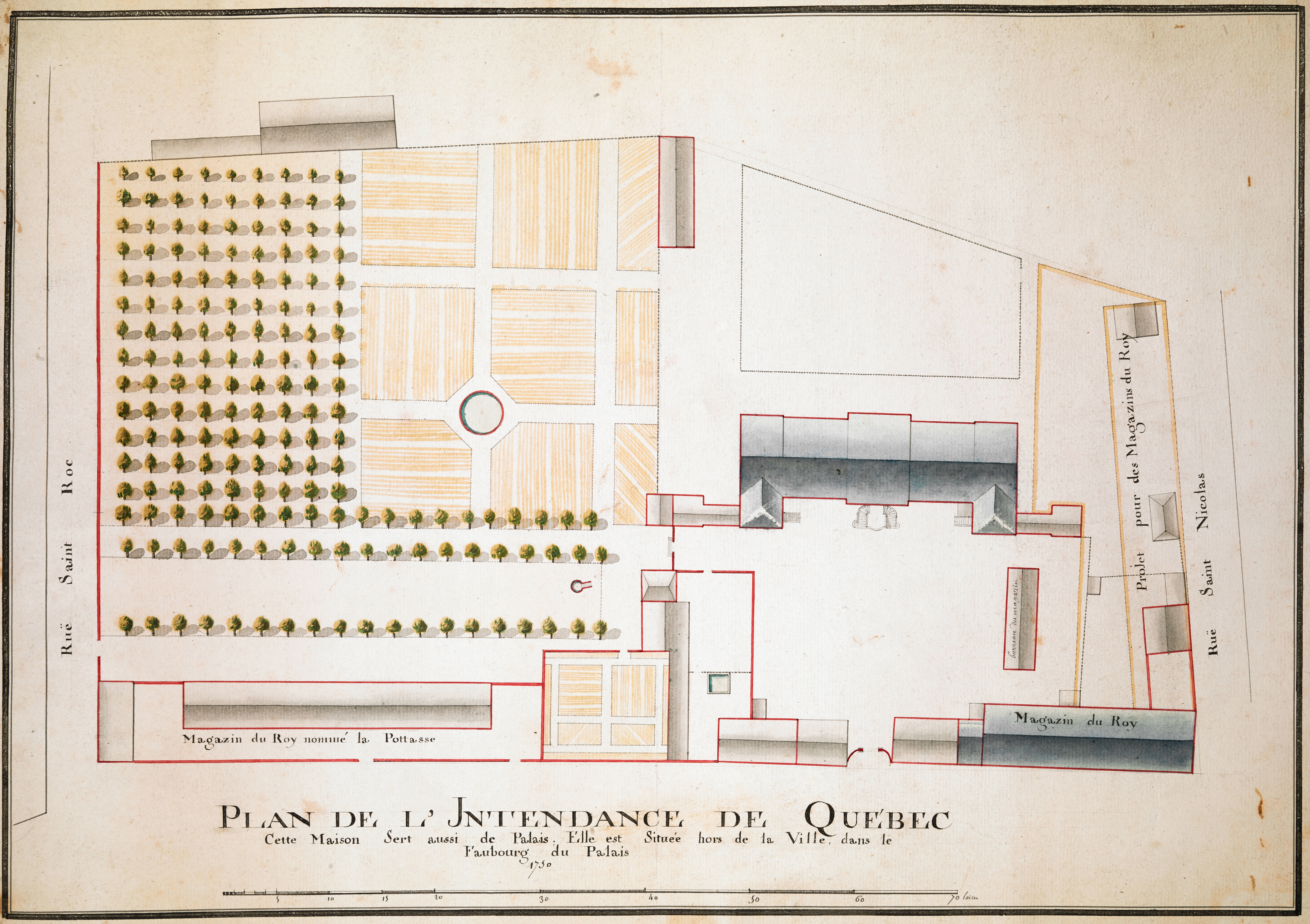 Date: 1750 Location: Québec (Québec) Dimensions: 35 x 50 cm Scale: approximately 1:490 approx. Scale bar of 70 toises (= 282 mmm.). French. Amherst no. A 66. R.U.S.I. no. A 28.86. 350 x 495 mm in The British Library catalogue of additions to the manuscripts, new series 1971-1975